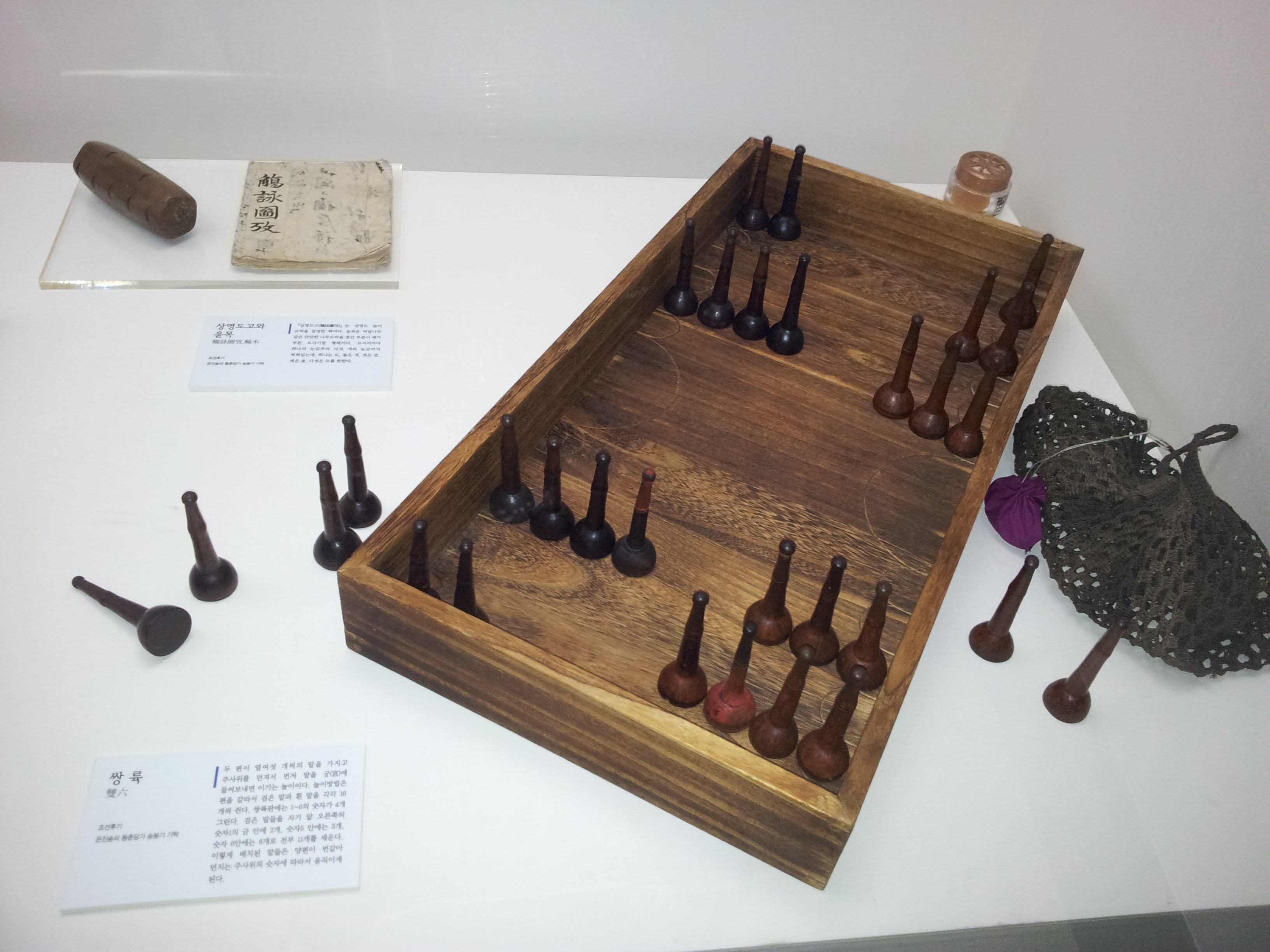 A board game of later Choseon dynasty of Korea